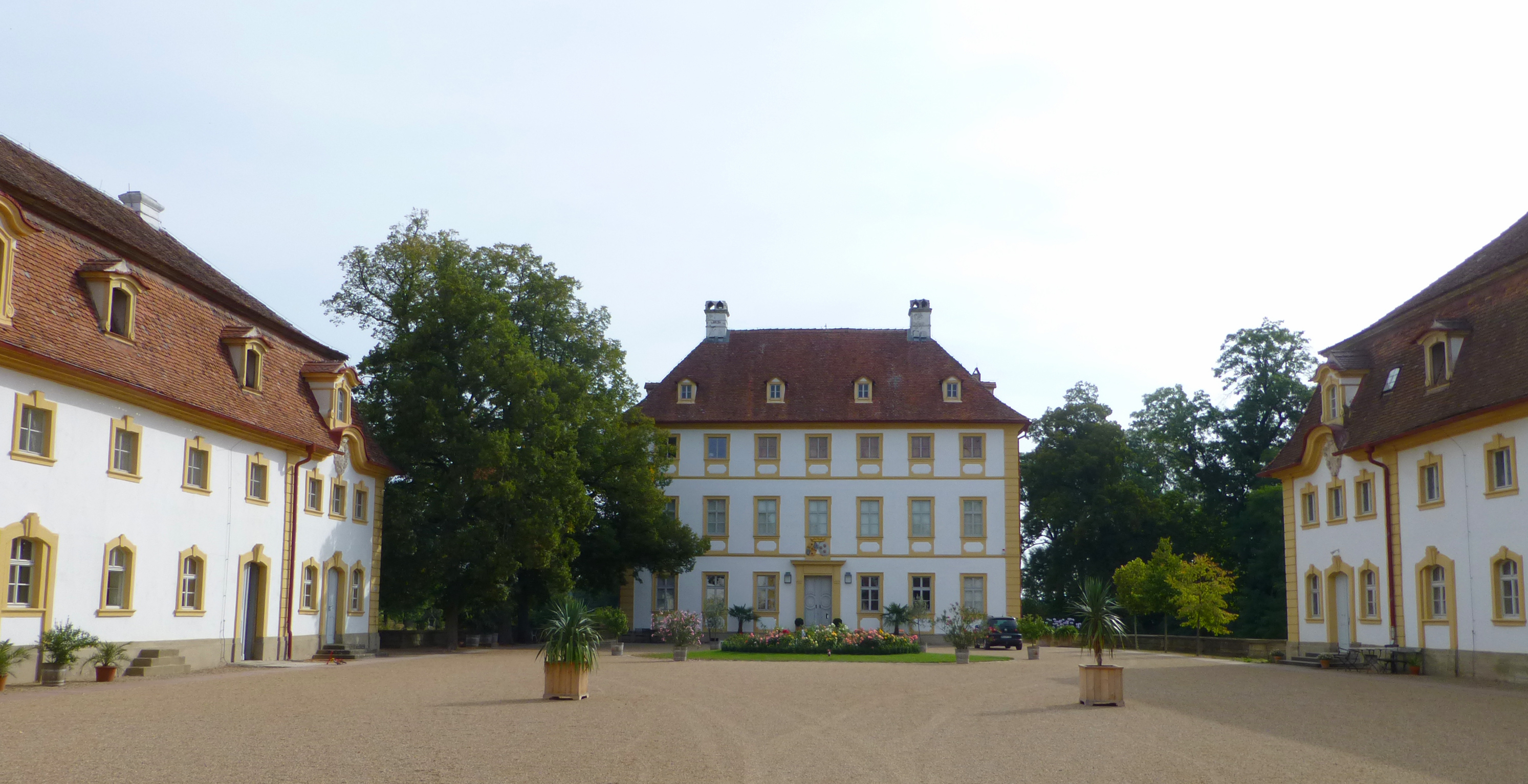 Early 18th century mansion of Frankenstein family in Sugenheim, Middle Franconia. Three aisles.